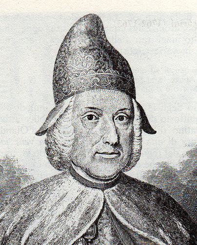 Marco Foscarini, doge of Venice.